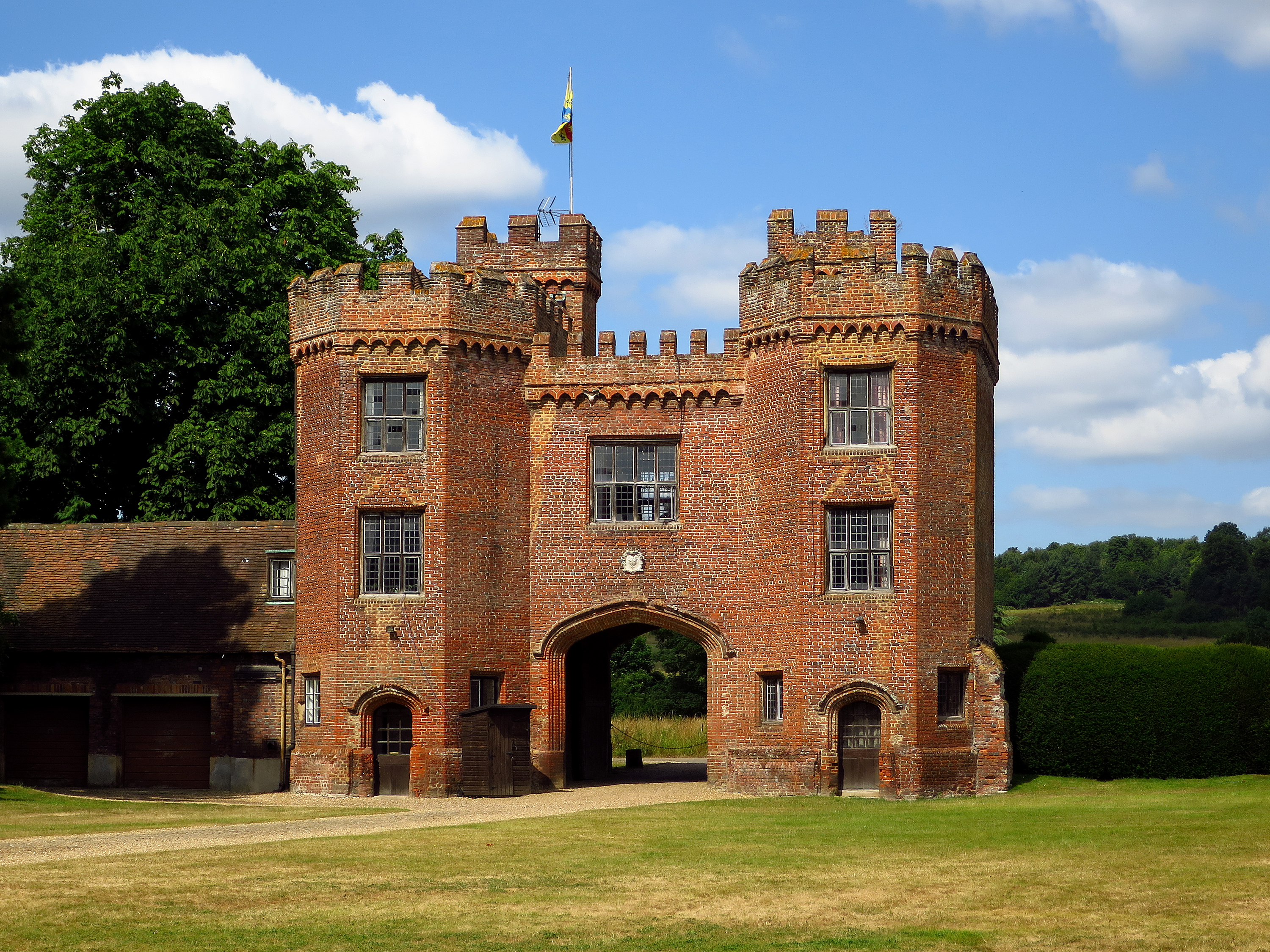 Lullingstone Castle gateway, Kent, England. Wikidata has entry Q17641316 with data related to this item.